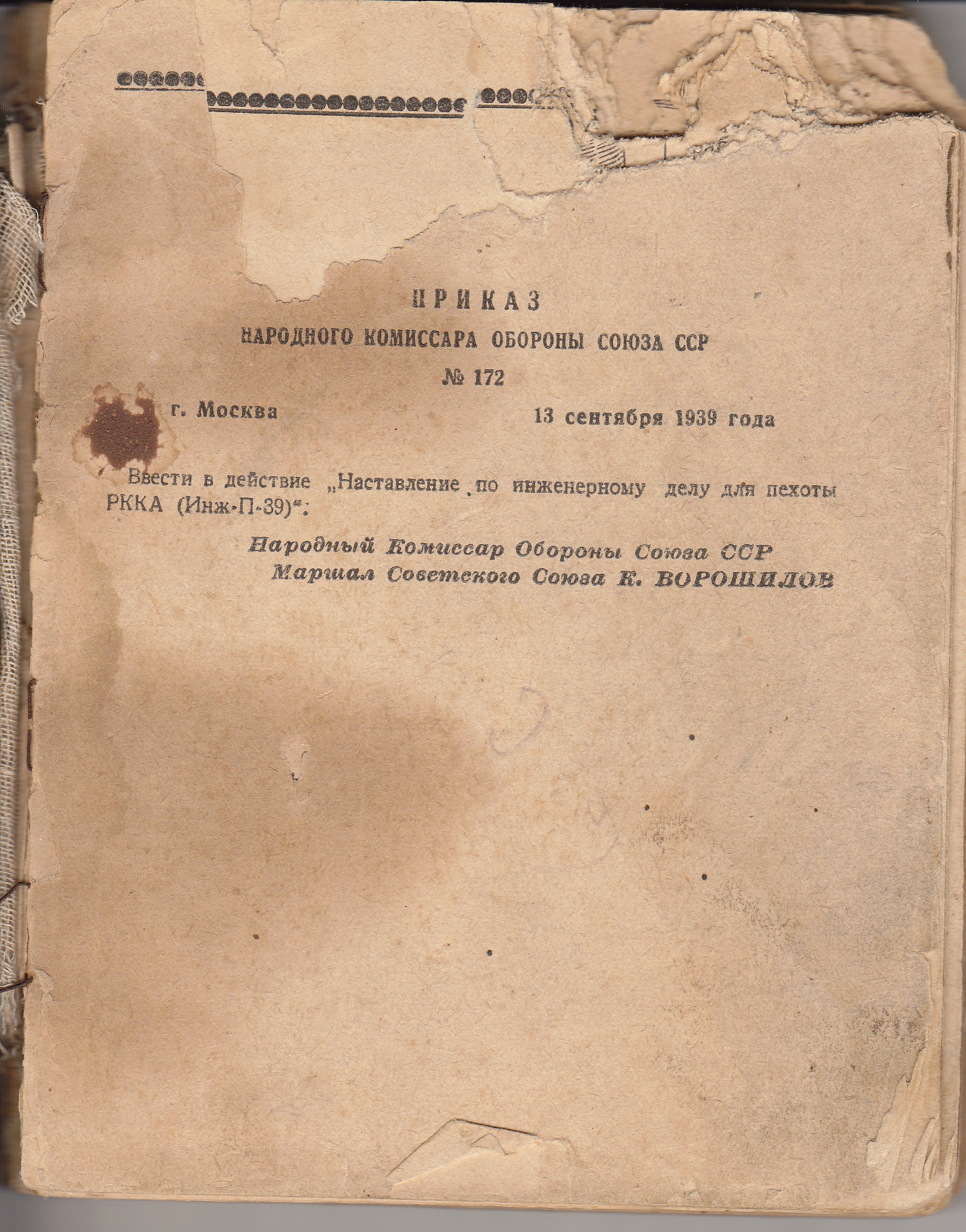 order no 172